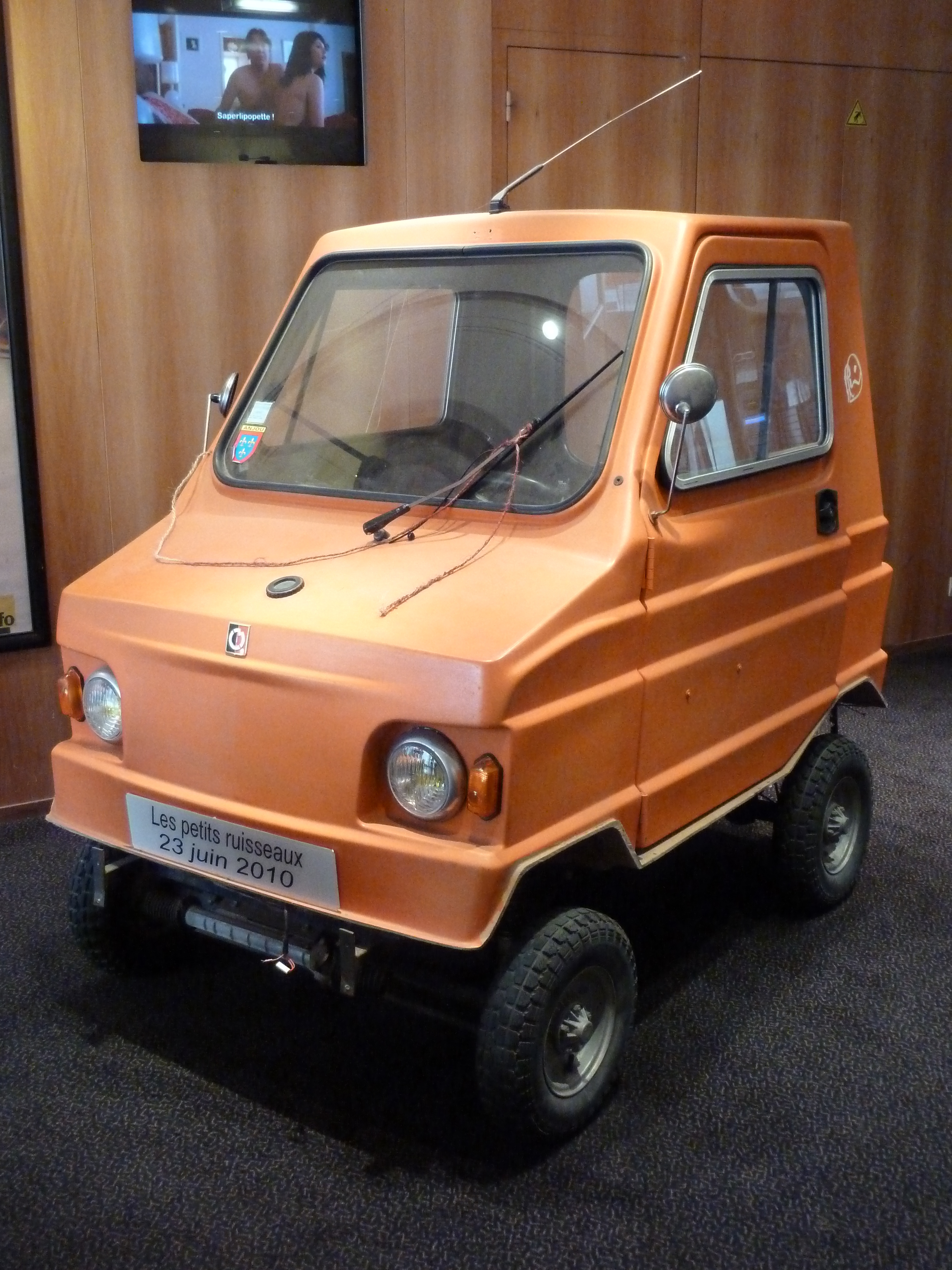 Comtesse Berline 1980 - 1982 Type 810 E, a microcar by Acoma. This specific model has appeared in the French film "Les petits ruisseaux" (Little streams) by Pascal Rabaté.